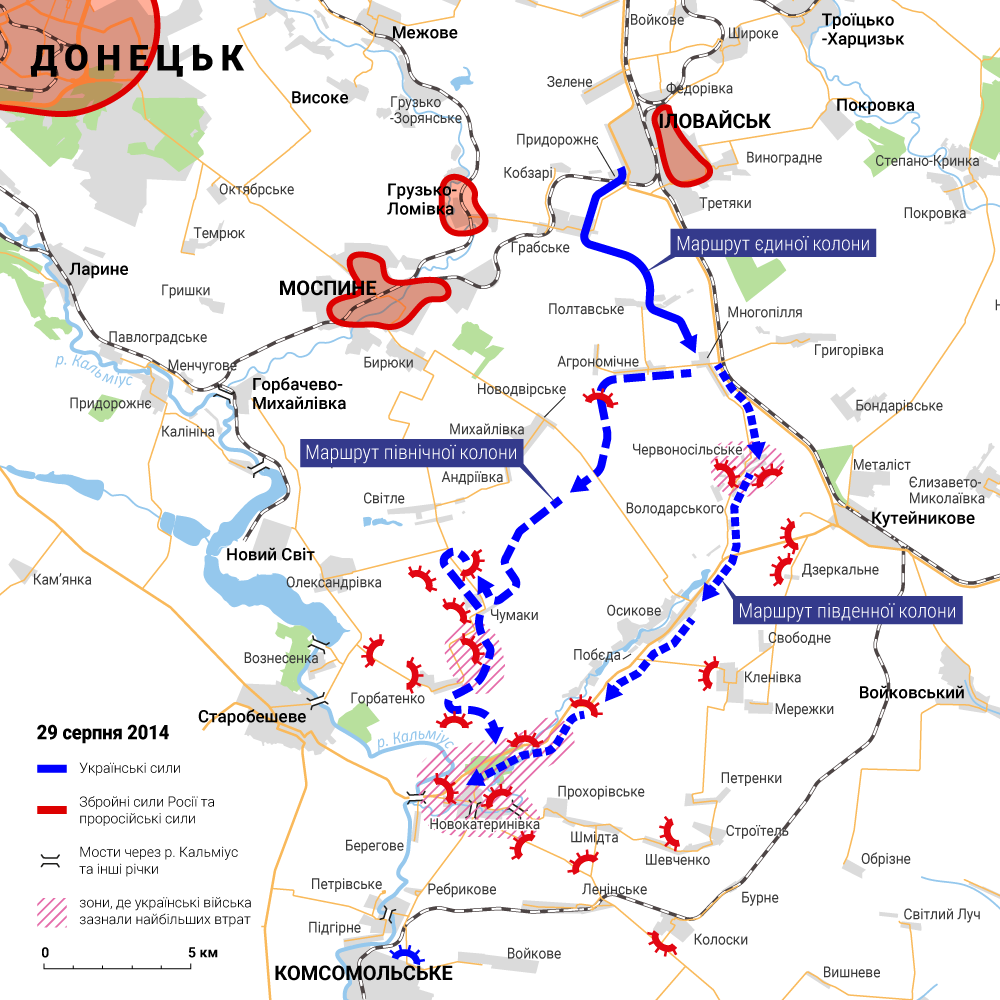 Ilovaisk battle, 29 August 2014